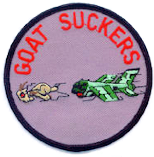 4452d Tactical Squadron - Emblem